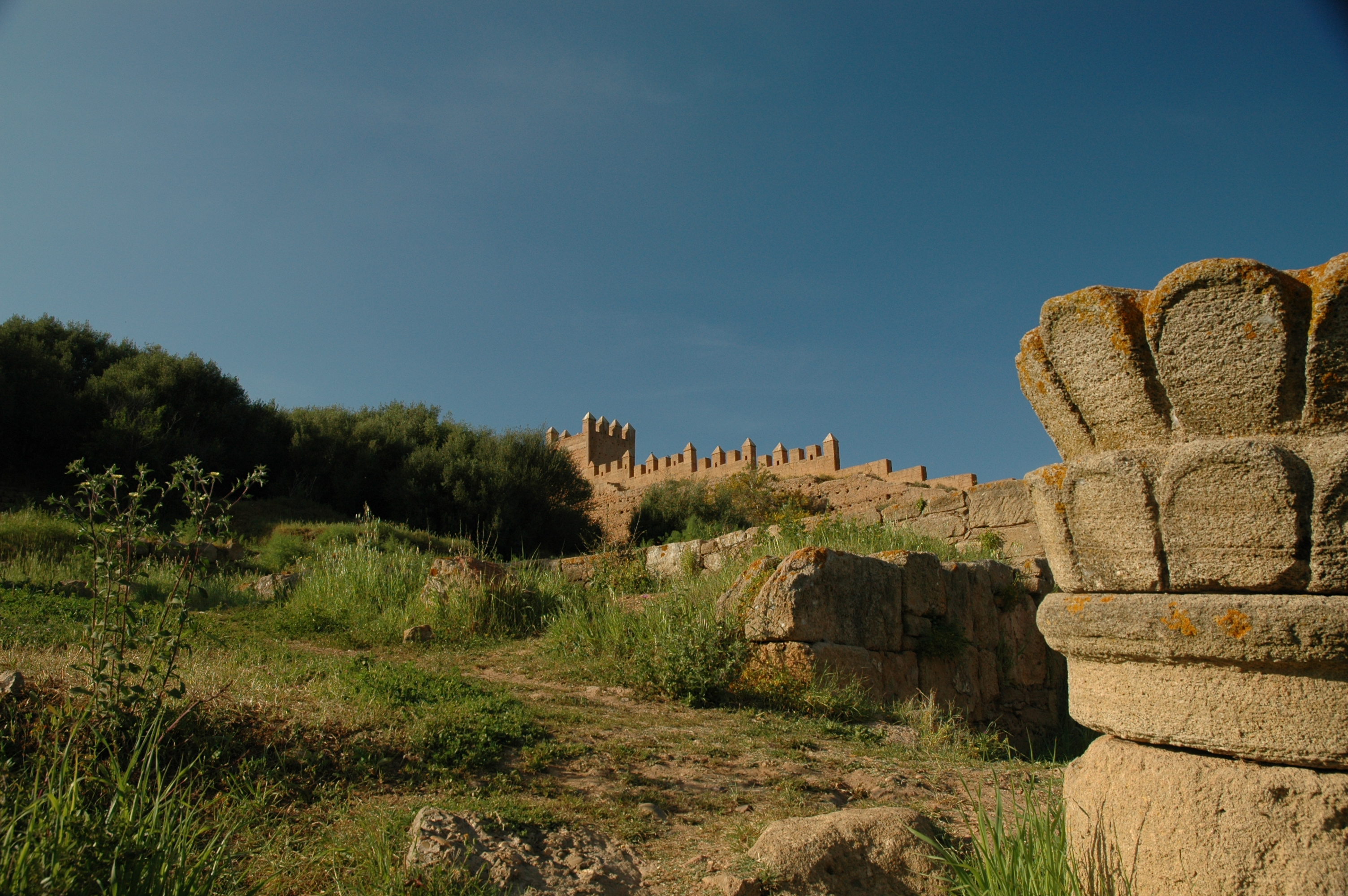 In the Chellah